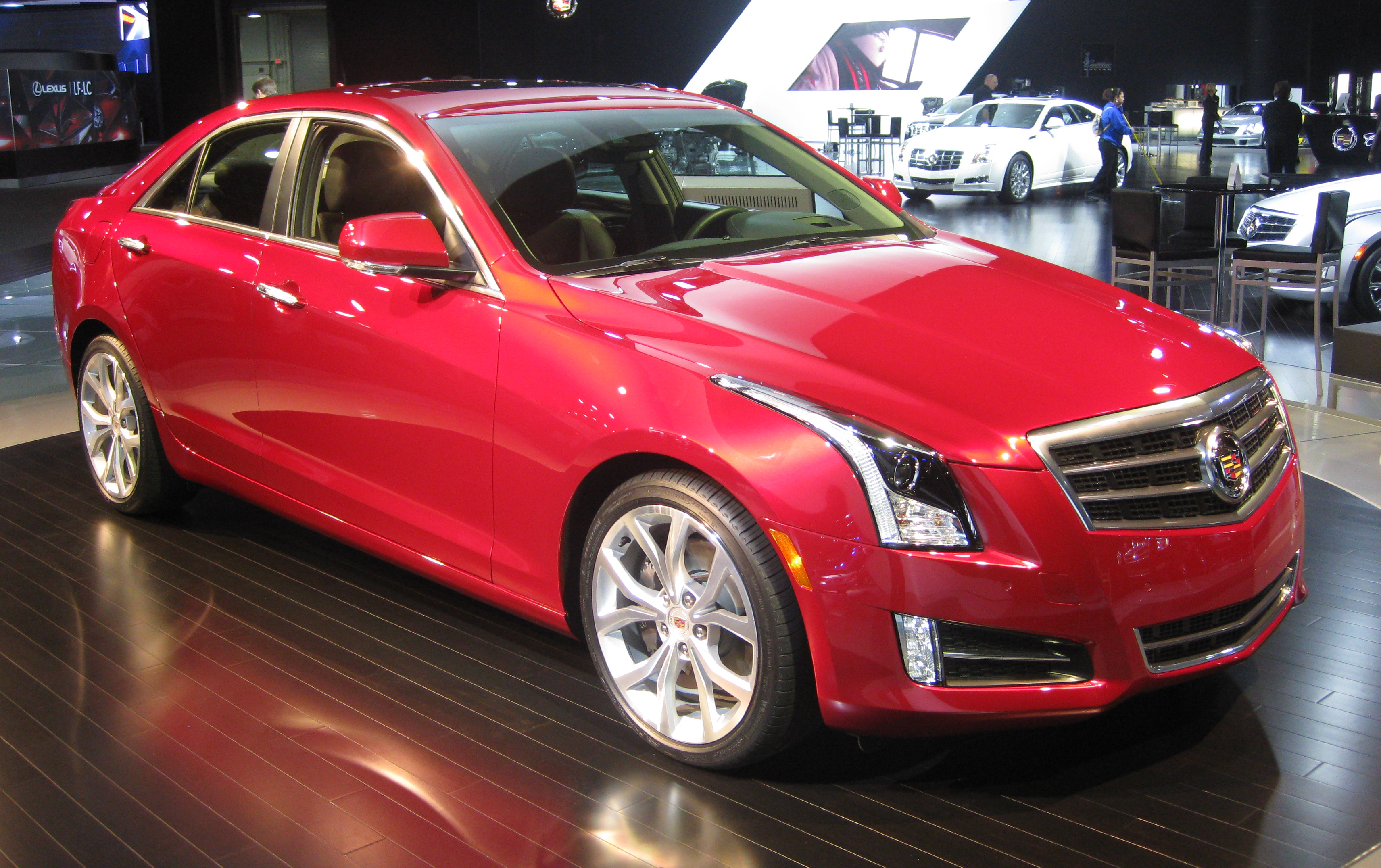 A 2013 Cadillac ATS in Crystal Red Tintcoat with 18" x 8" forged, machine-finished aluminum wheels on display at the 2012 North American International Auto Show.